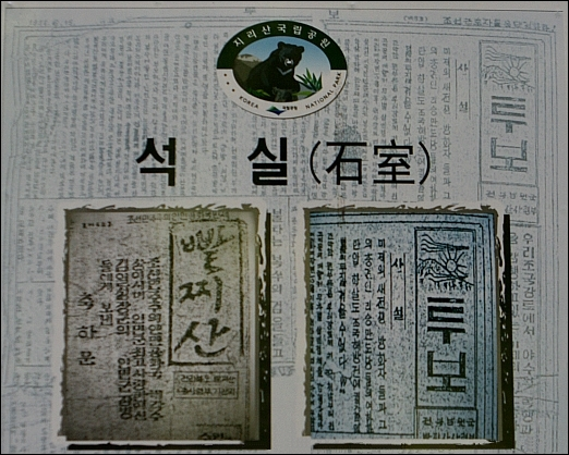 Newspaper published in South Korea during the Korean War (빨치산 신문)